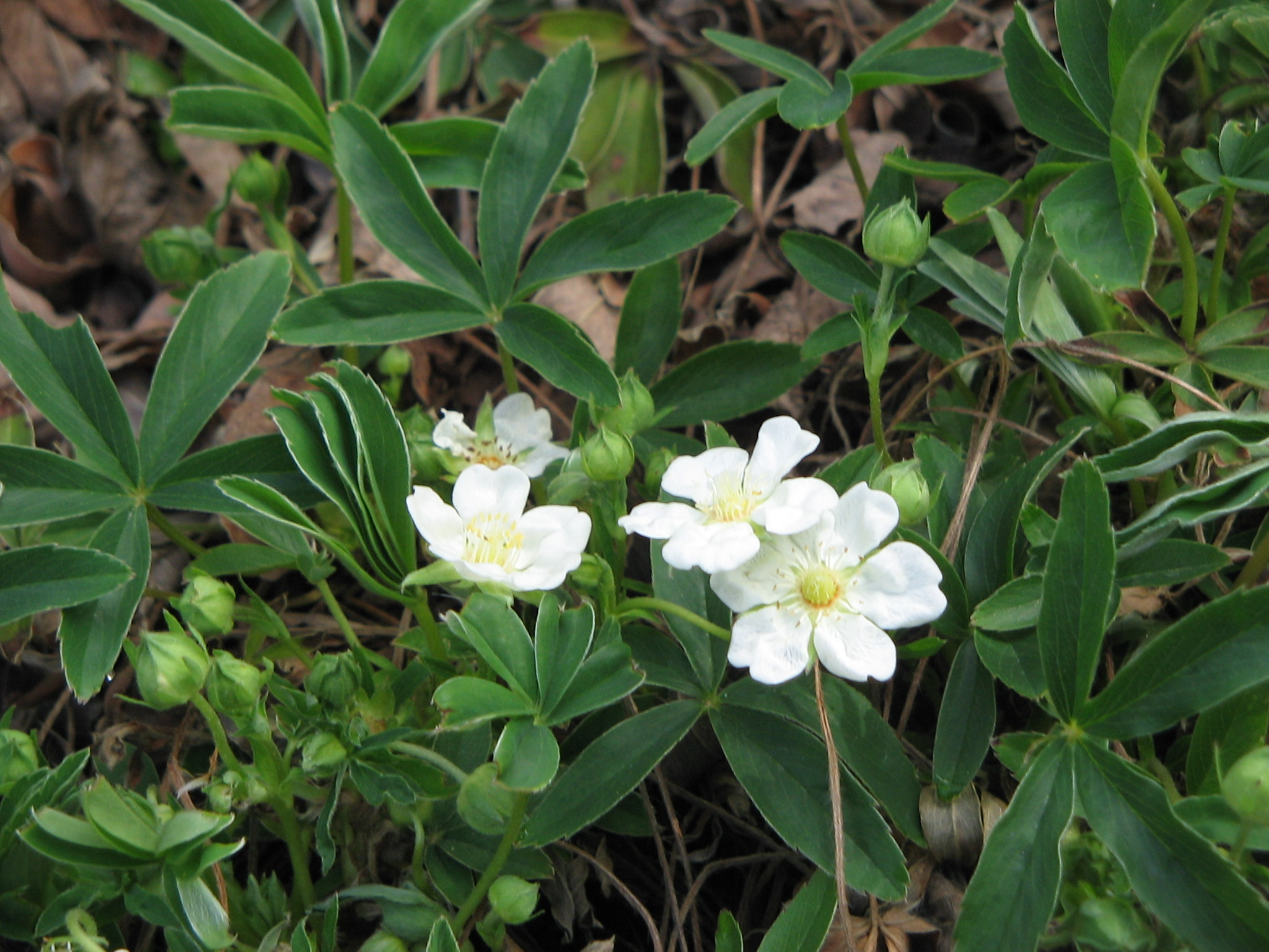 Potentilla alba in a garden in Belgium - close-up